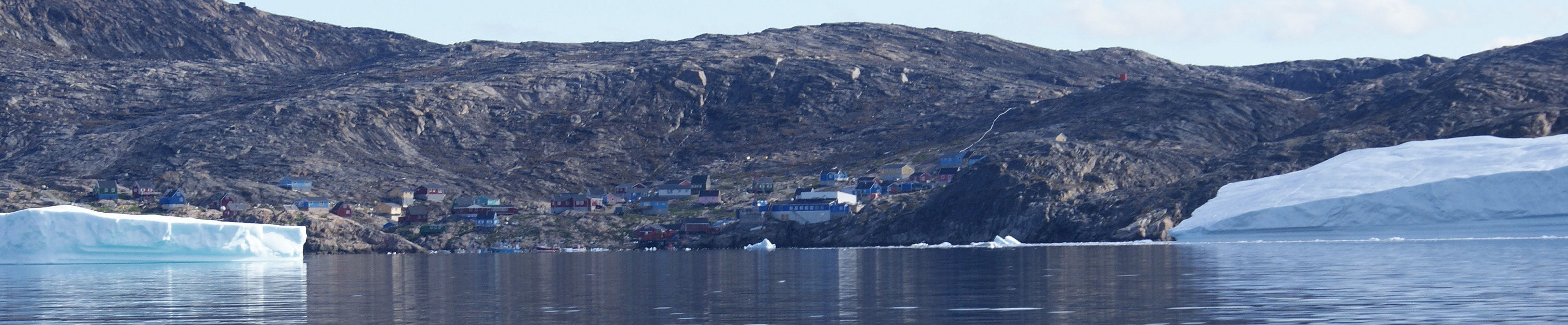 Innaarsuit, Upernavik Archipelago, Greenland. Photographed from afar, from a hunting boat.